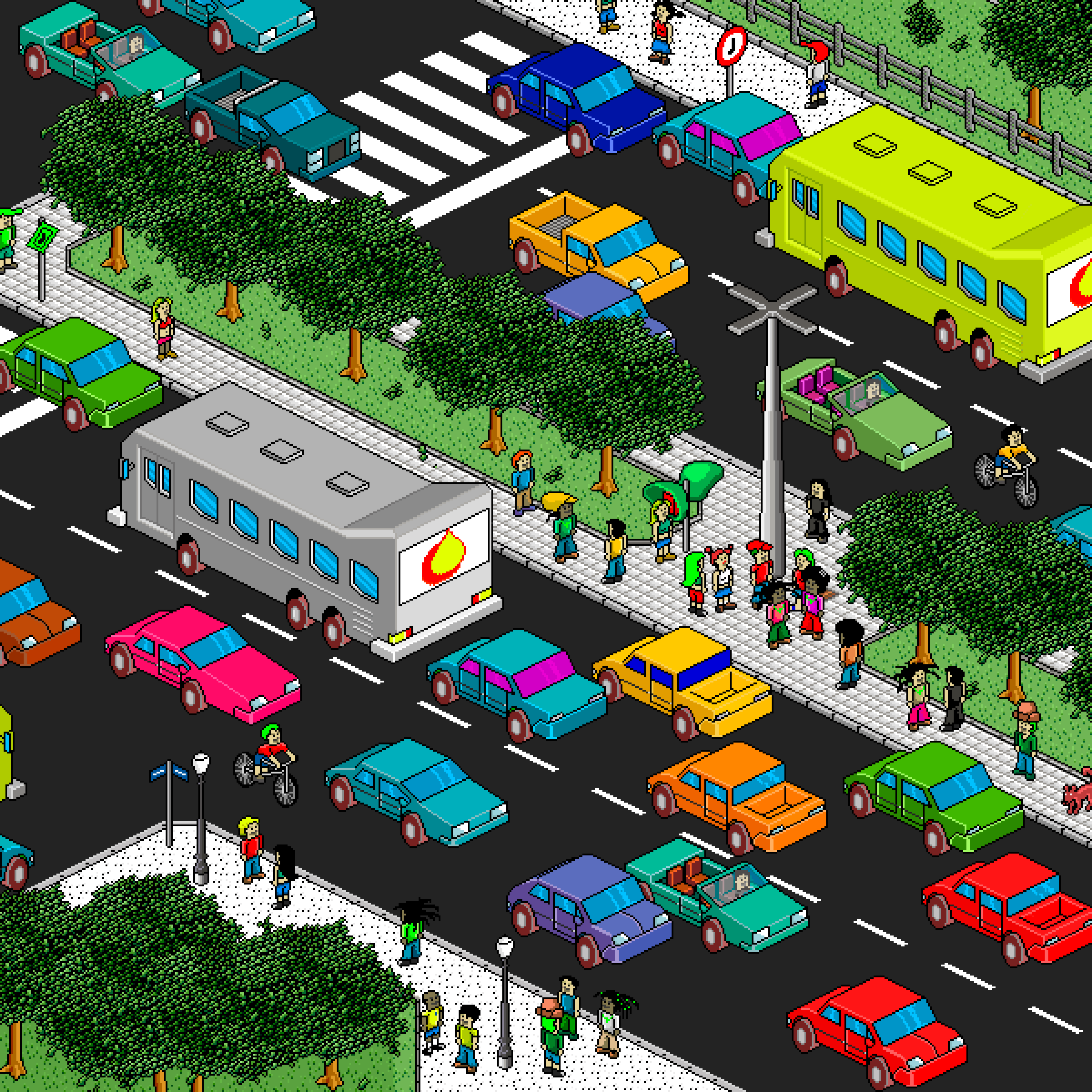 Isometric Pixel Art representing the city of Curitiba (Brazil) by Peterson Freitas (2004-2005). This is an enlarged version from the original (600x600 = 360'000 real pixels). 174 colors.